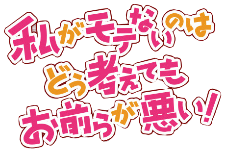 Logo of anime and manga WataMote.